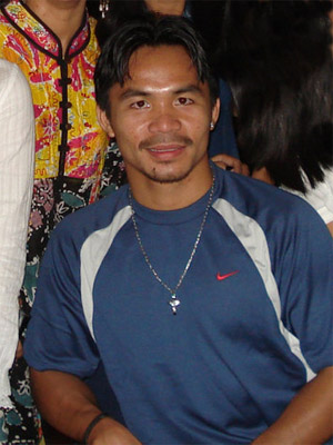 Filipino boxer Manny Pacquiao at Waterfront Hotel in Cebu City. This is cropped from a resized version of a much larger photo. Sorry for the small size.